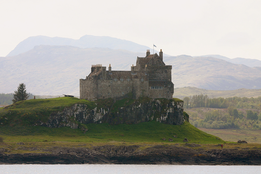 Duart Castle, Isle of Mull, Scotland - incorrectly named Torosay